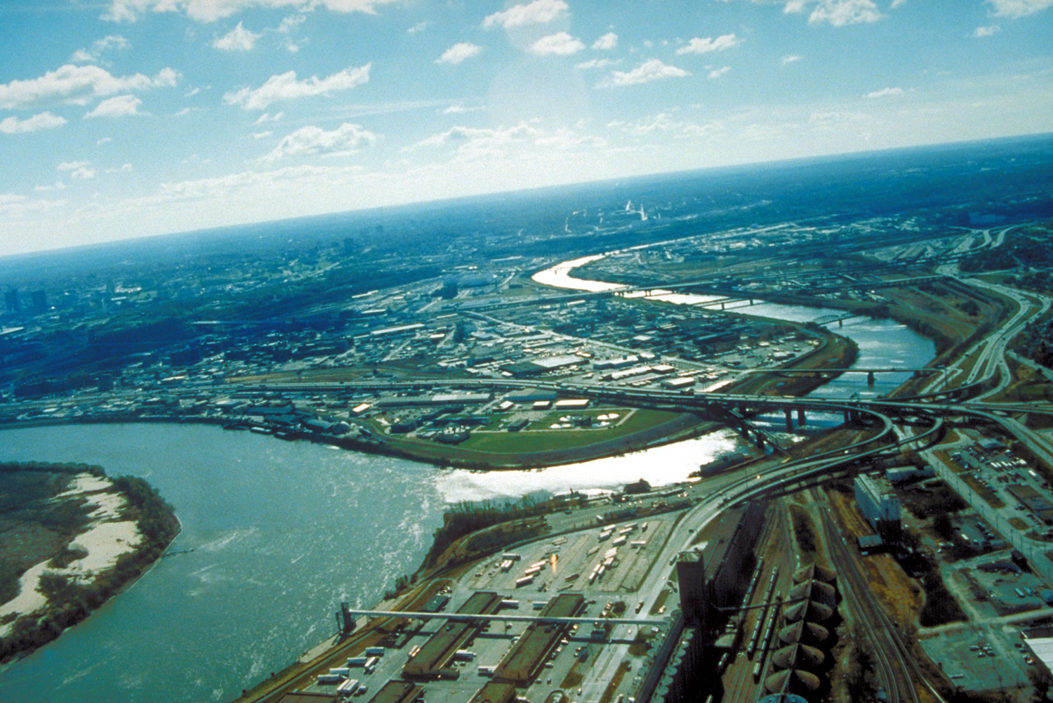 Aerial view of Kansas City, Kansas, looking southwest. The Kansas River (right-center) joins the Missouri River (left). A small piece of Kansas City, Missouri is visible on the left of the Missouri River.